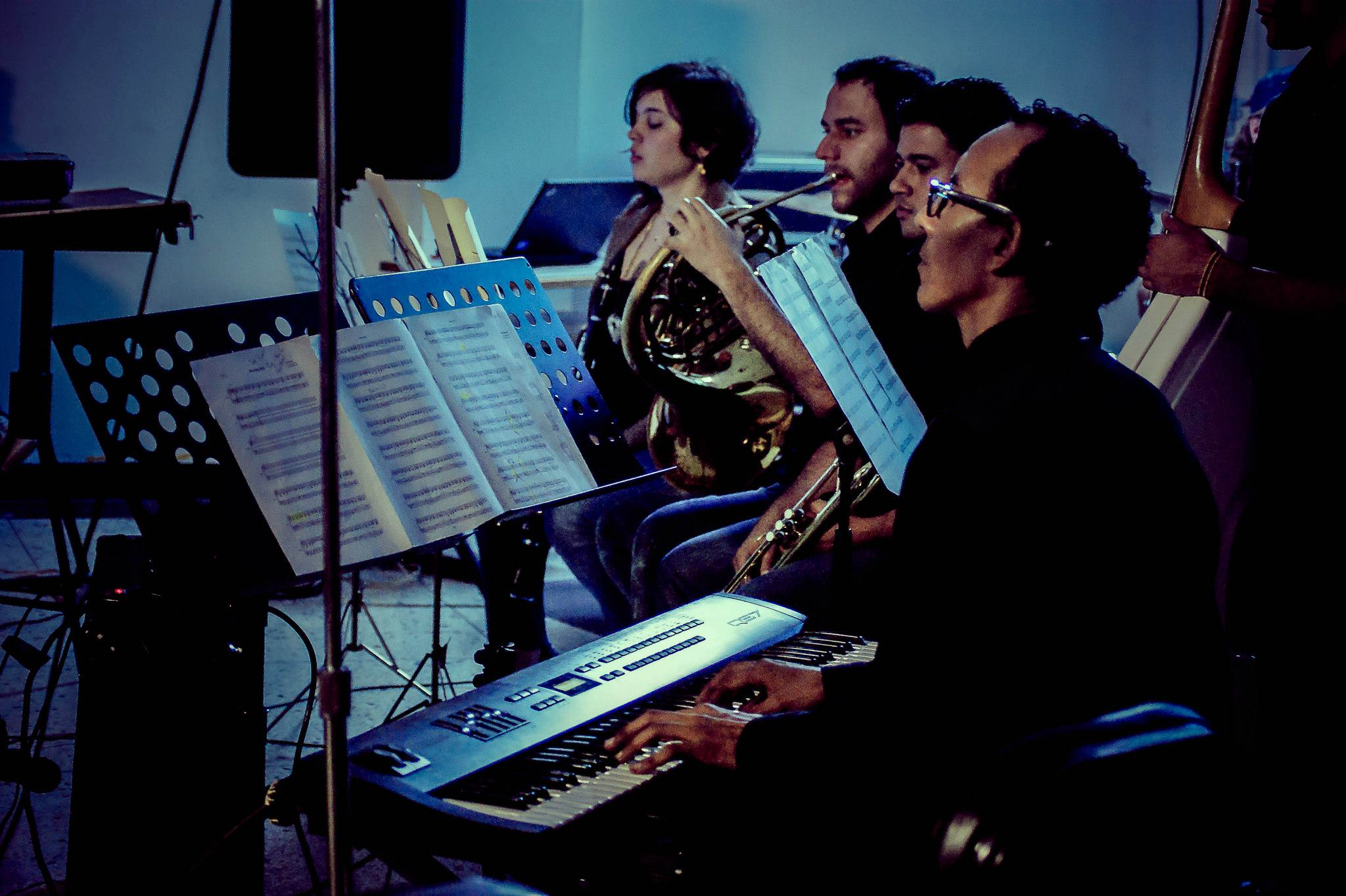 Franklin Pire & La Cool Jazz Session